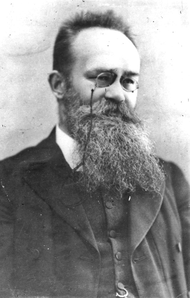 Mykhaylo Hrushevskyy